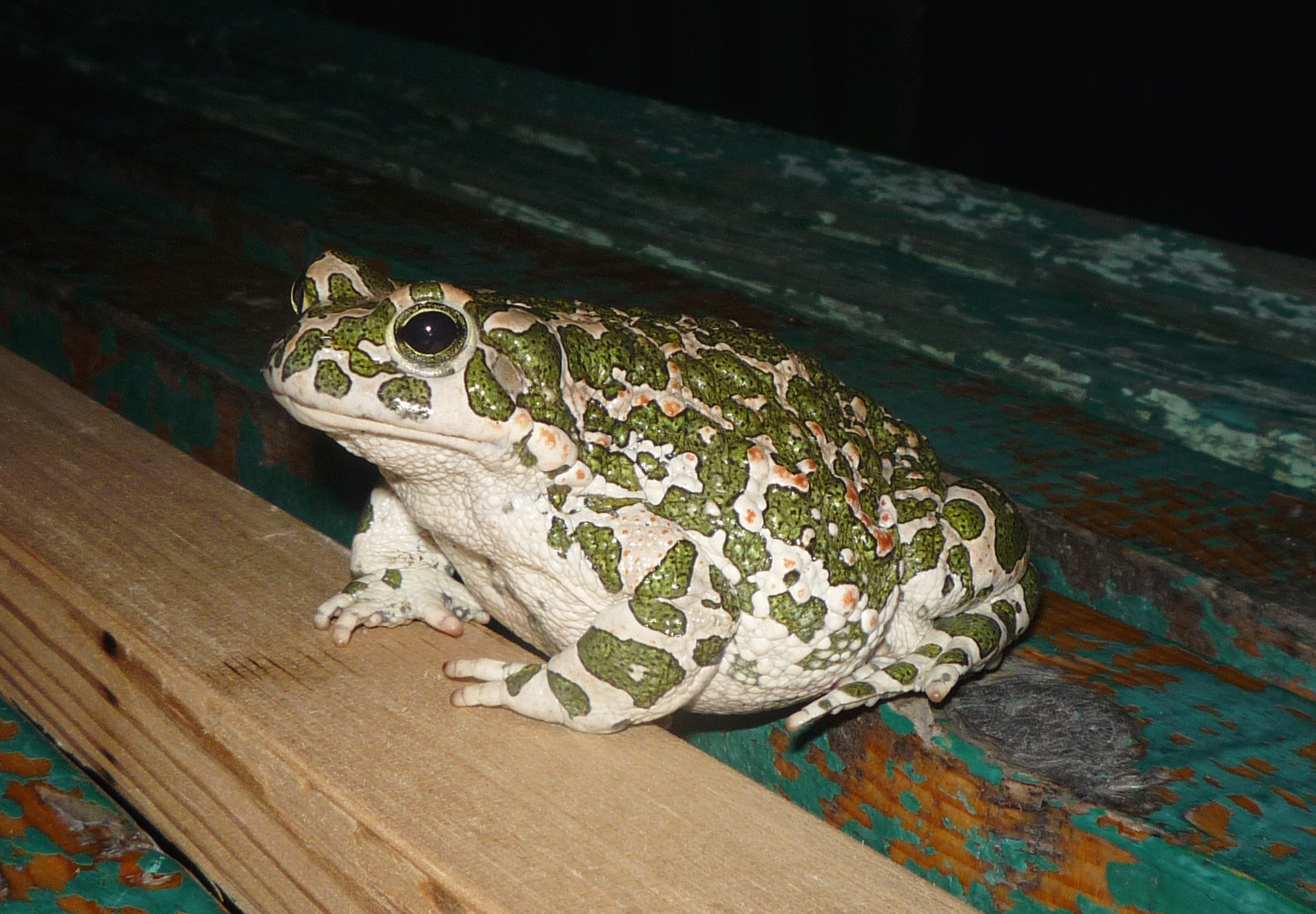 The European green toad . This picture is taken in Theodosia, Ukraine.